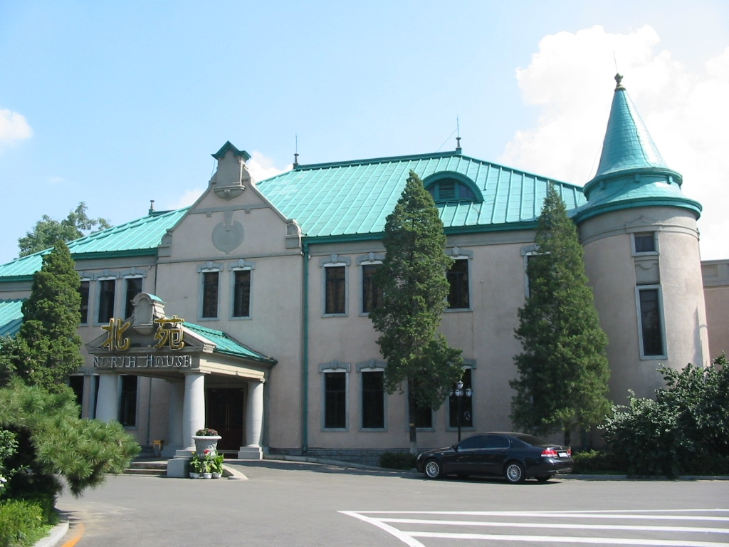 Old Fengtian Consulate of Japan(Shenyan city,China / Disigned by Shiro Mitsuhashi / Built in 1912)